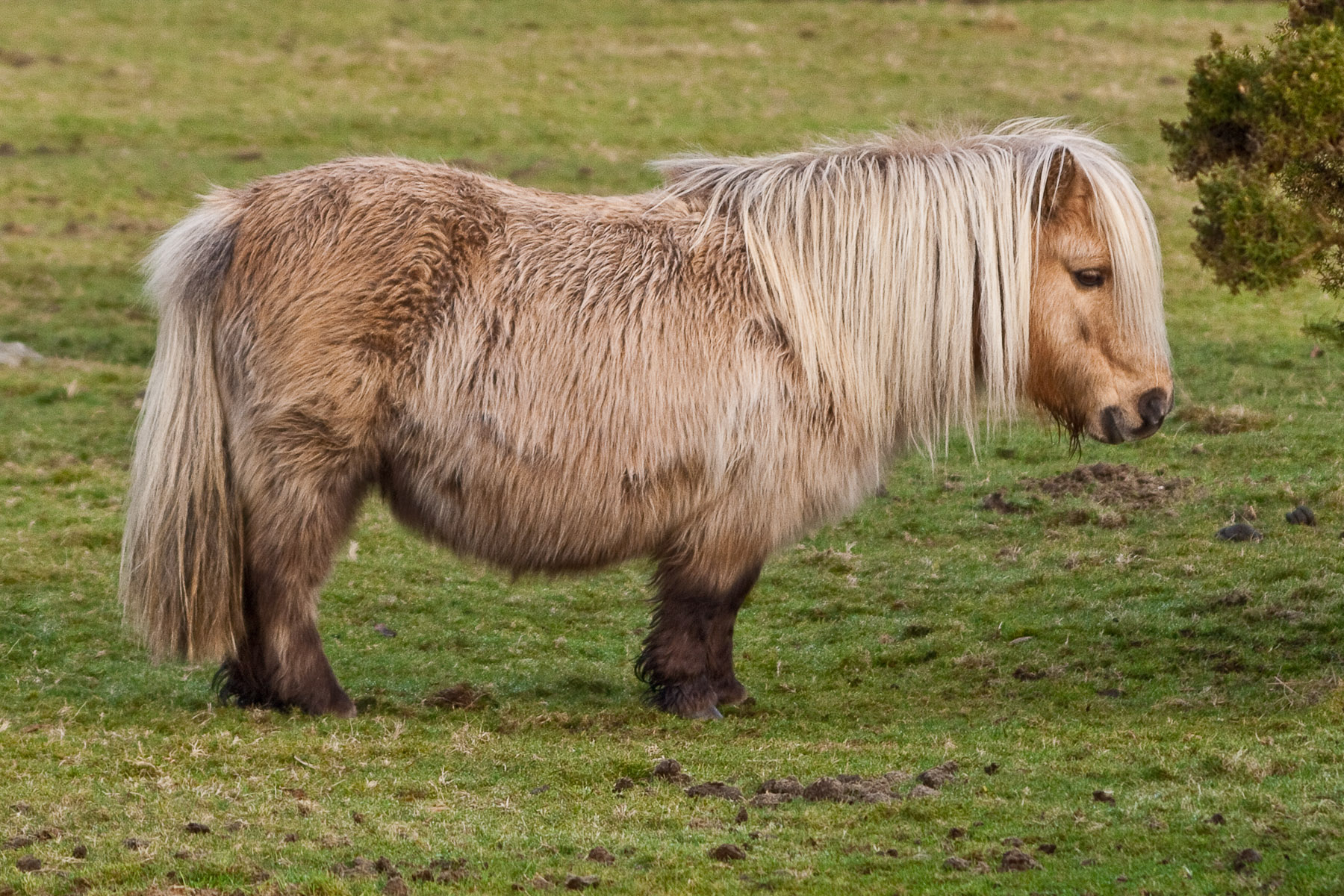 Shetland Pony on Belstone Common